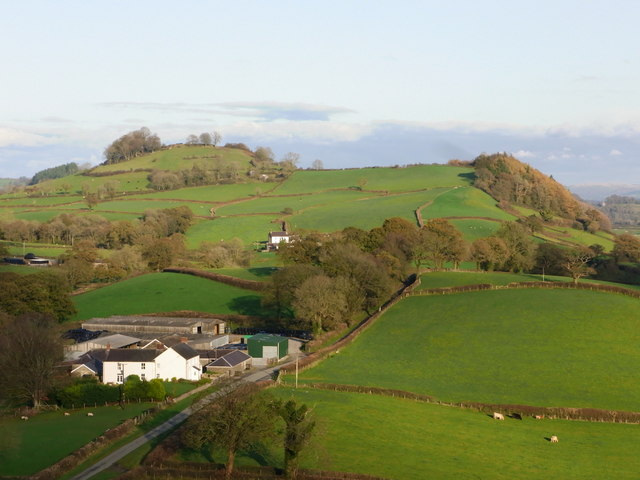 Grongar Hill from Dryslwyn Castle "Ever charming, ever new, When will the landscape tire the view?" From "Grongar Hill" by John Dyer 1726